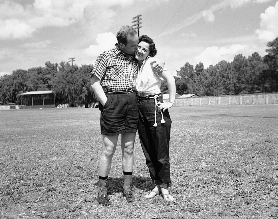 Photographer: Alexandra Studio ca. 1955 City of Toronto Archives Series 1057, Item 2599